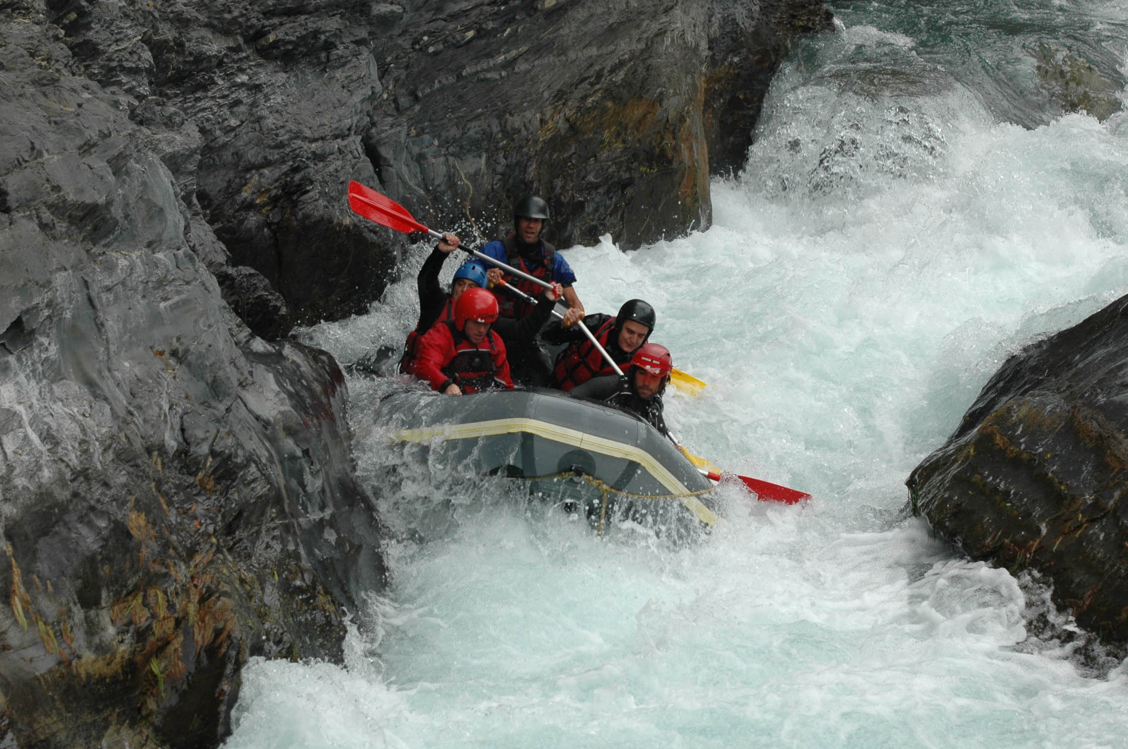 Rafting